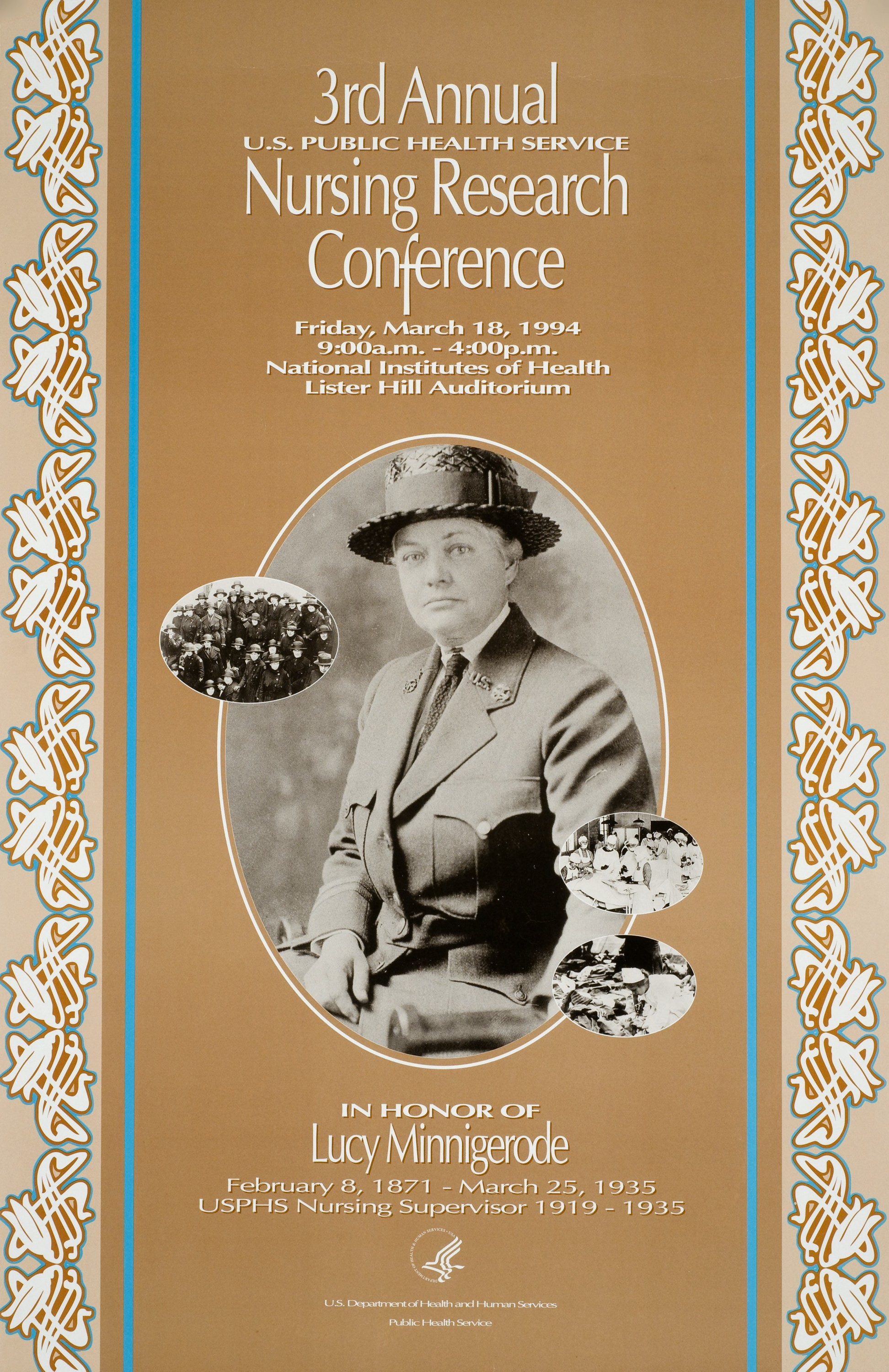 Third annual U.S. Public Health Service Nursing Research Conference featuring Lucy Minnigerode on 18 March 1994